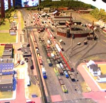 N scale model of Dennison (Ohio) depot and railyards. The model is at the Dennison Railroad Depot Museum which occupies the 1873 depot. The depot can be seen in the model. The view in this image is looking east along Center Street. The depot is in the left center of the image, on the south (right) side of Center St. Photo taken 2006-01-28 by Richard Renner.